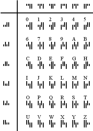 All RM4SCC characters.